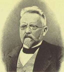 Photo of german chessplayer Johannes Metger.